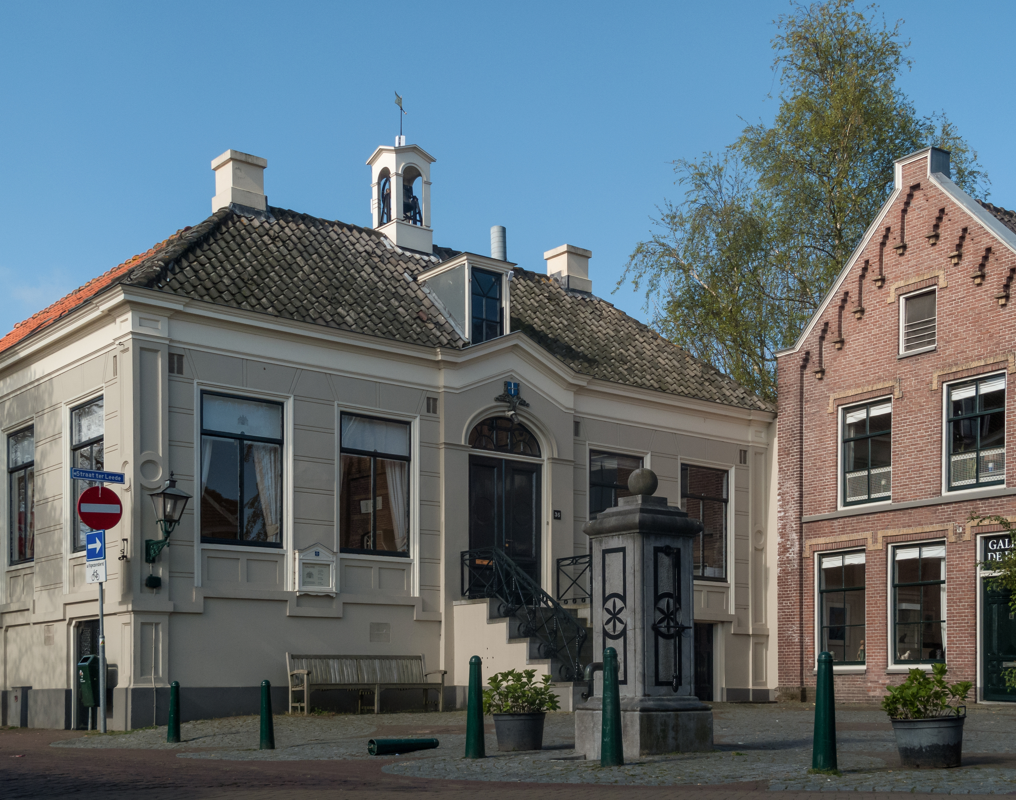 Warmond, former townhall